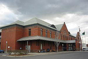 Train station in Spokane, Washington, United States